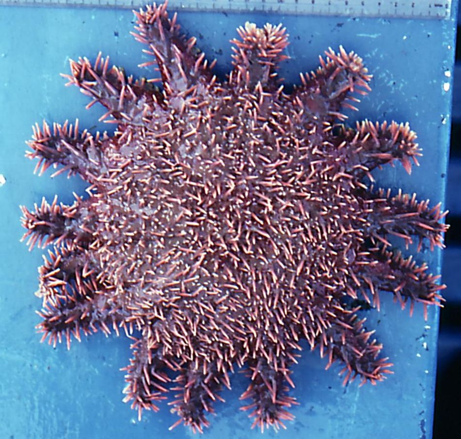 Acathaster ellisii from Gulf of California